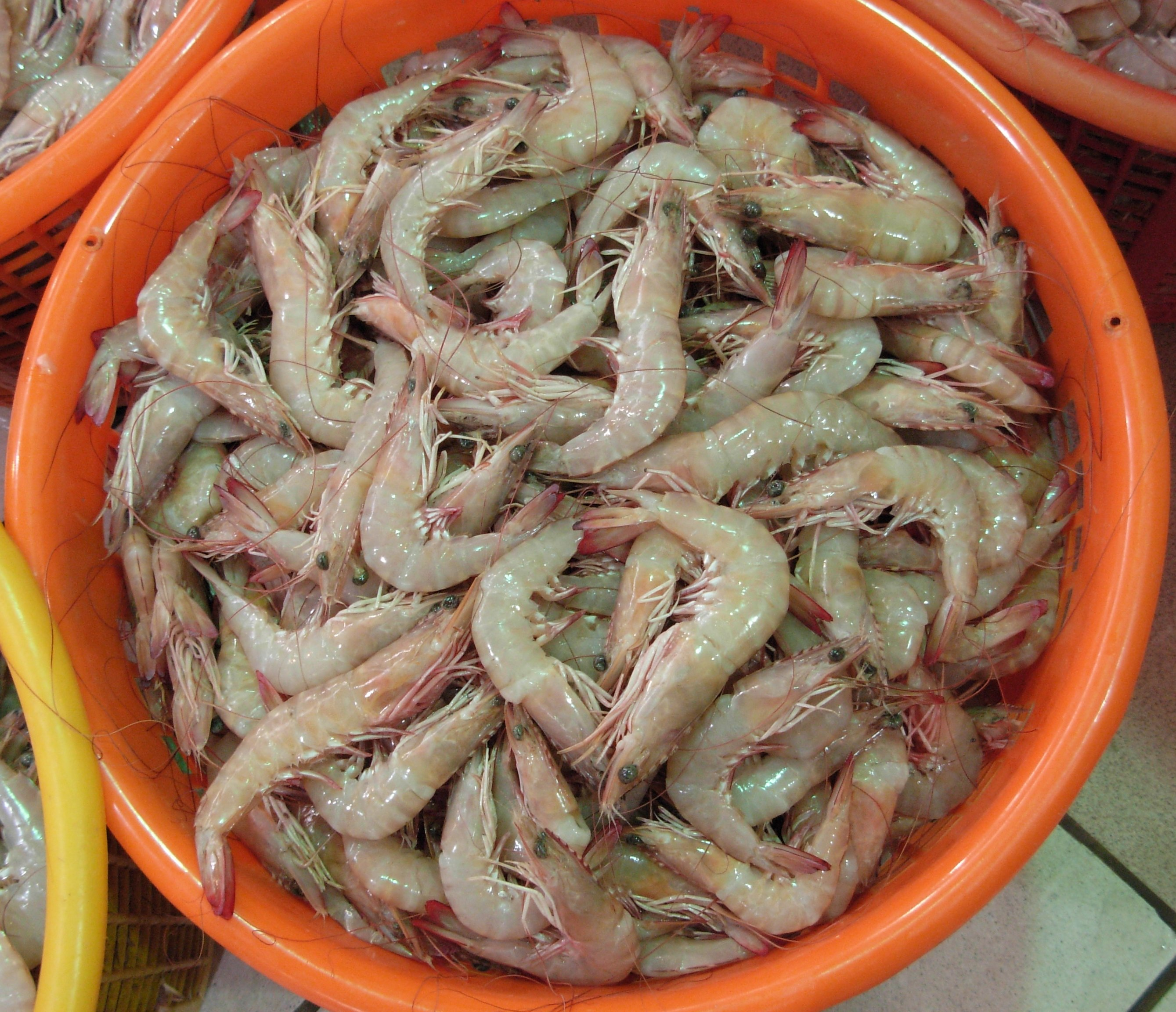 Prawns